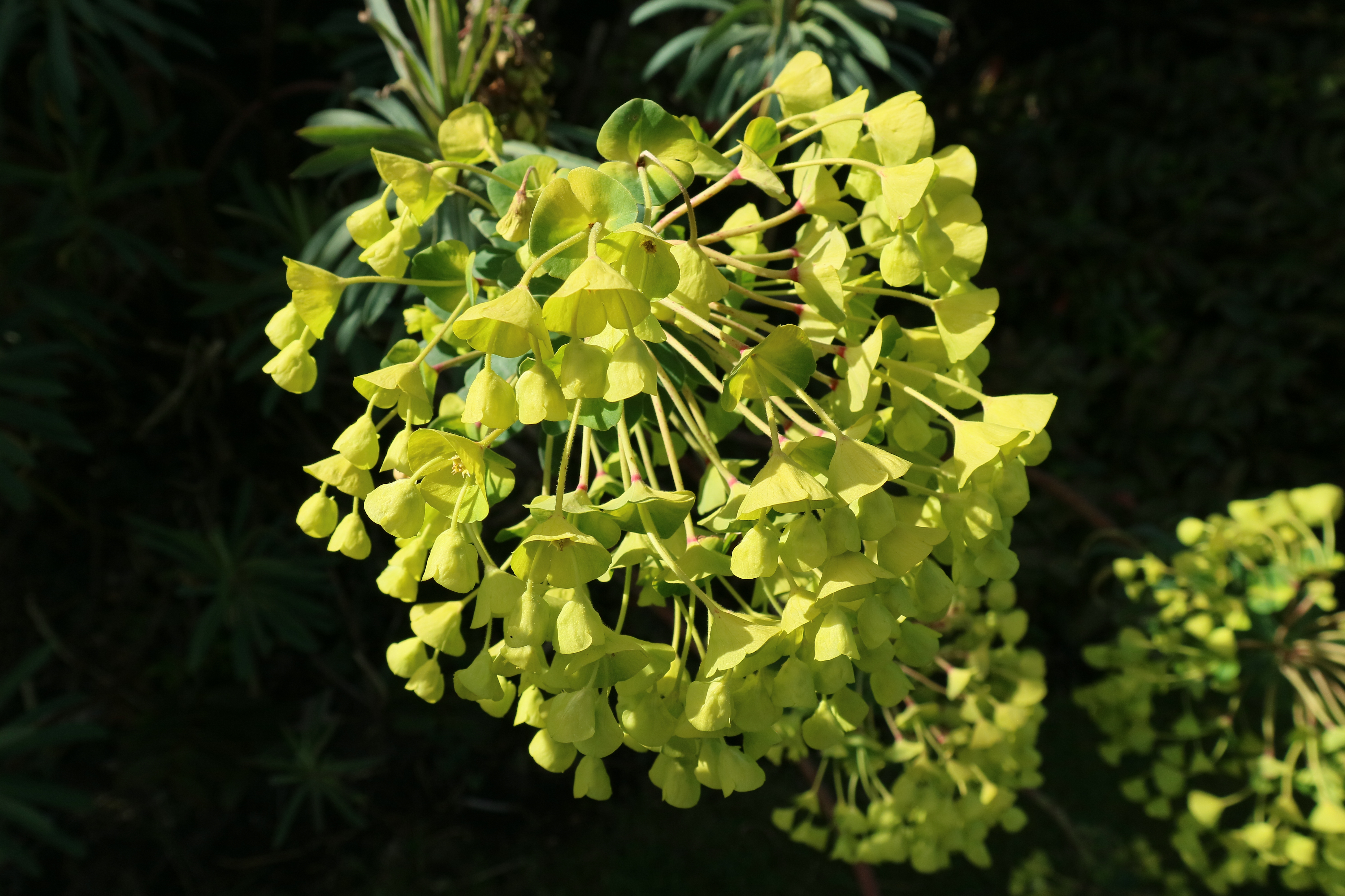 Euphorbia characias, photographed in a garden, United Kingdom.